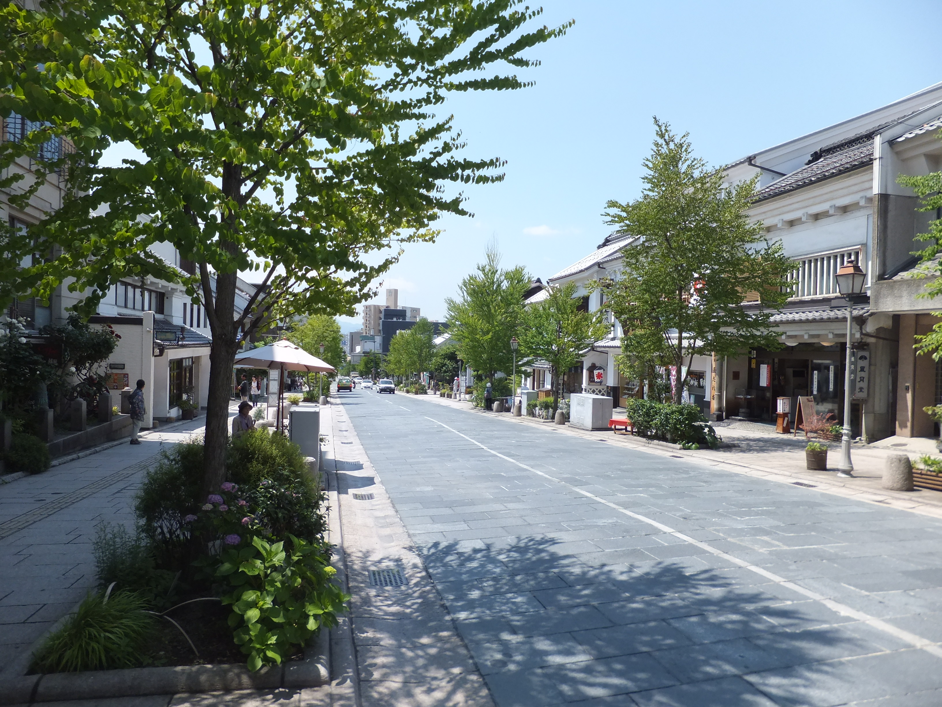 Chuo Street is an avenue in Nagano City that runs north and south and that is an approach to the Zenkō-ji.